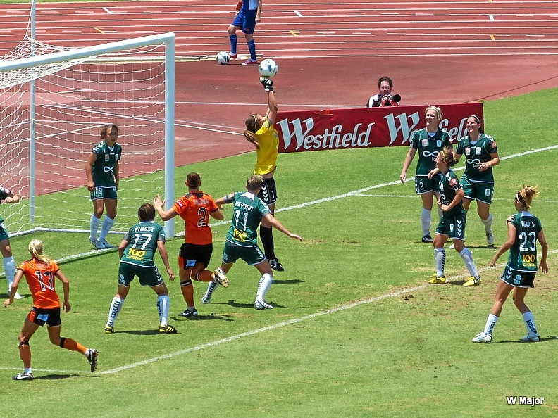 Canberra United FC vs. Brisbane Roar, W-League, Season 2012/13